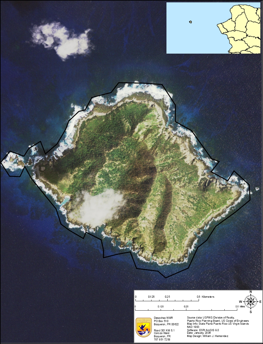 Satellite image of Desecheo Island, Puerto Rico PDF at 100 percent resolution changed to jpg